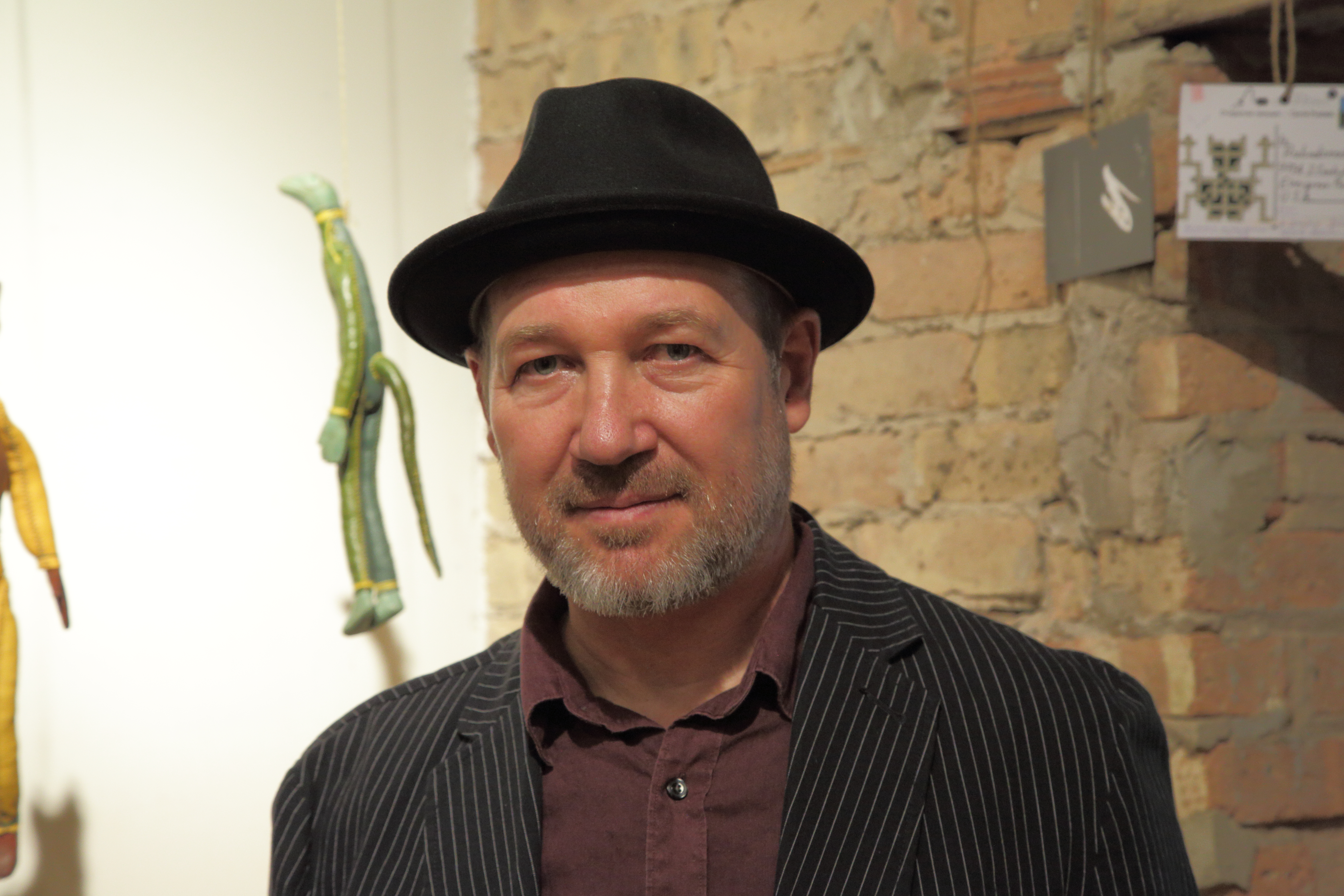 Artist